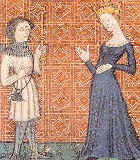 Blanche of Castile